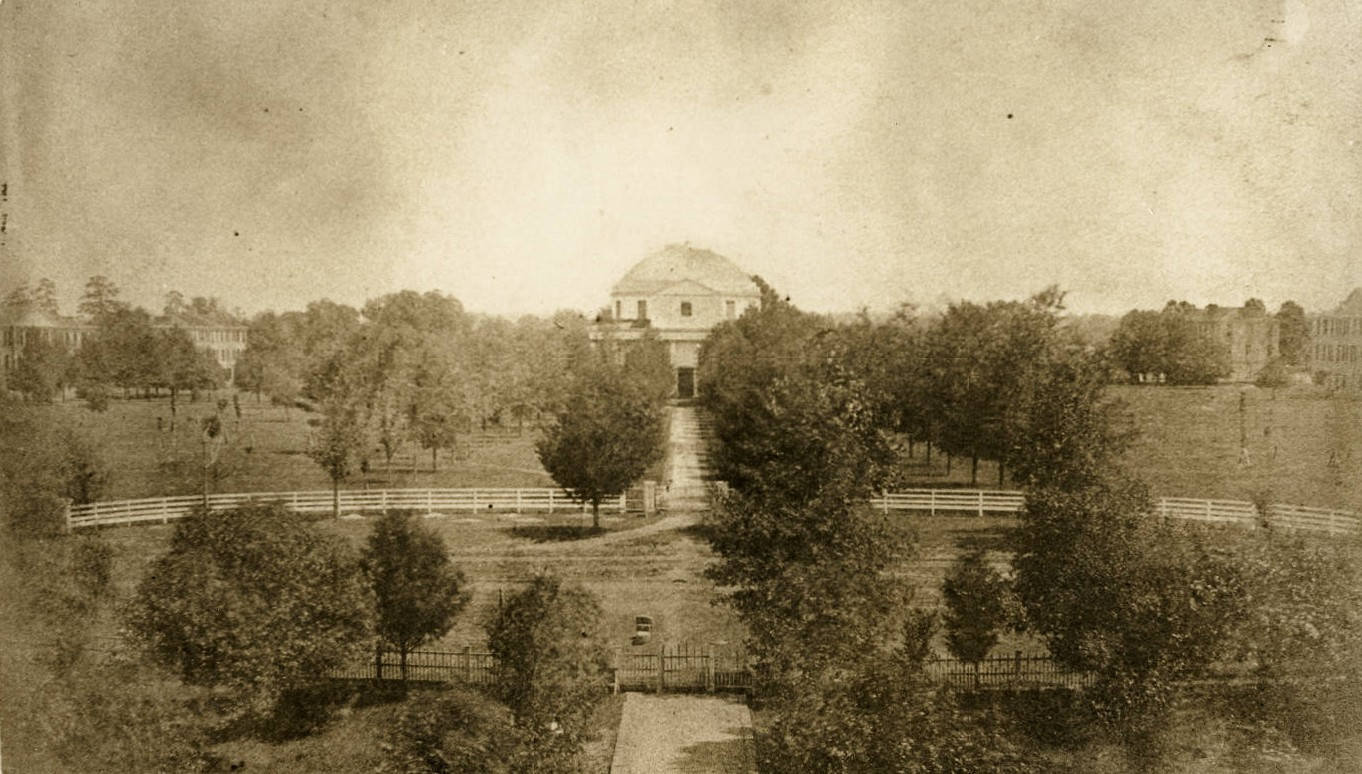 The campus of the University of Alabama in 1859. View of the Quad, with the Rotunda at center and dormitories in the background. All of these buildings were destroyed by the Union army under the command of Brigadier General John T. Croxton on April 4, 1865.